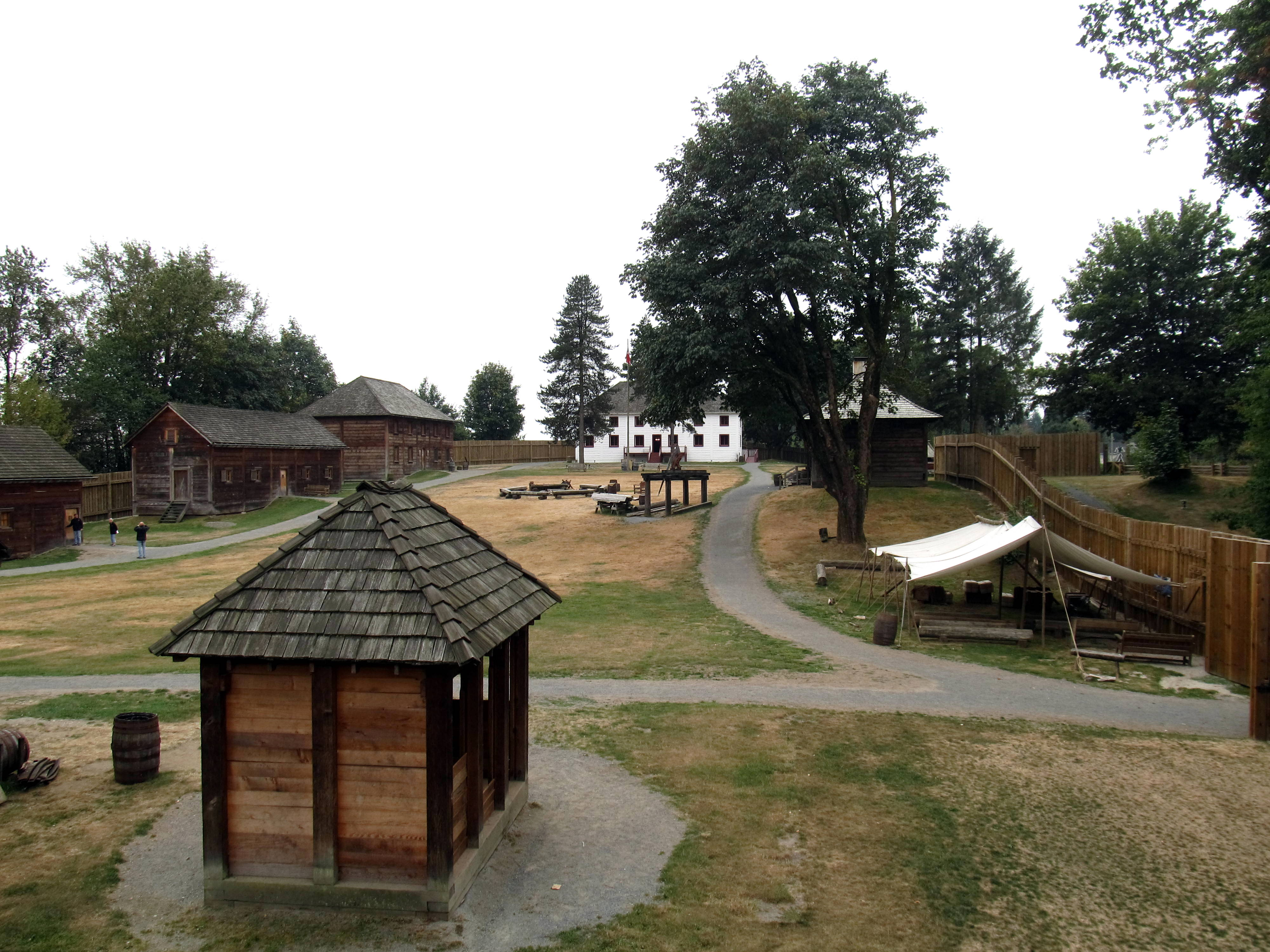 Northeast Bastion